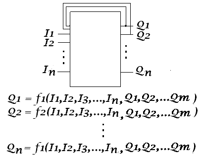 The Structure of Sequential logic